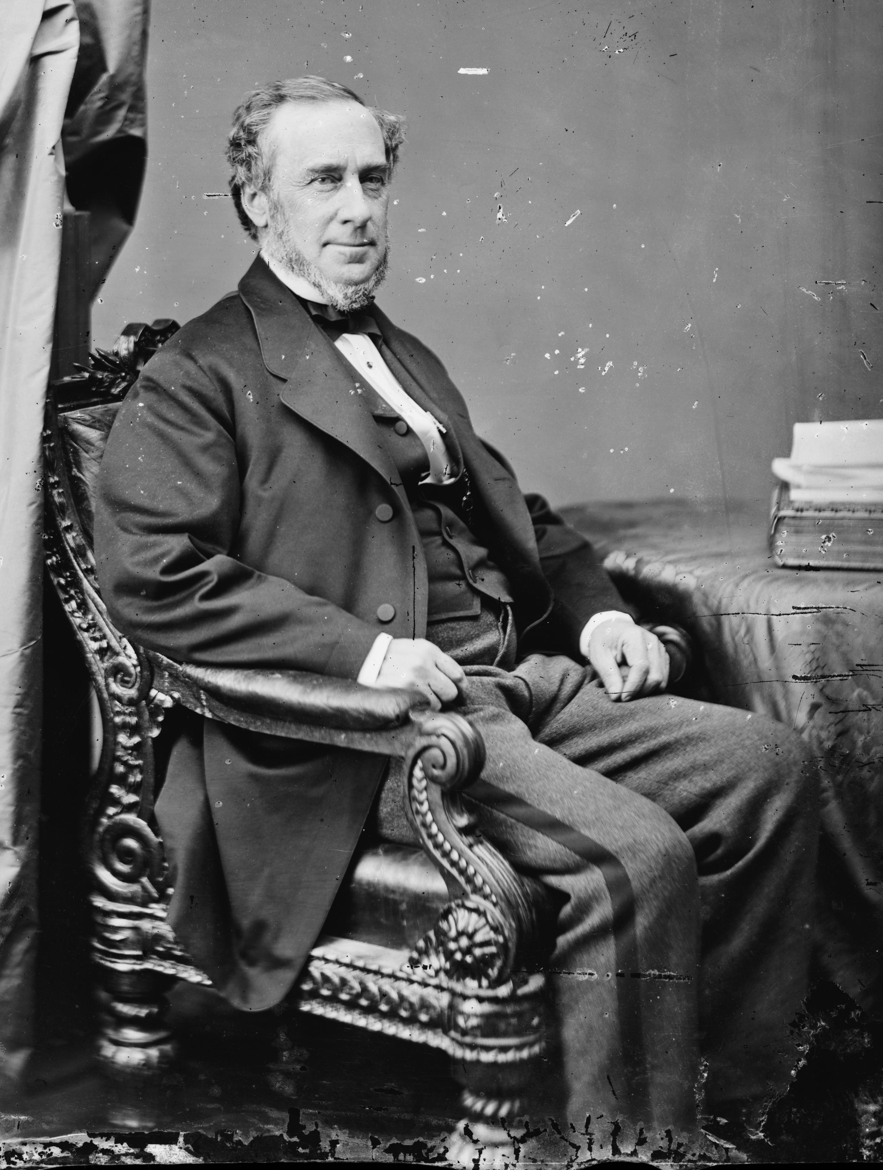 Thomas C. Cornell. Library of Congress description: "Hon. Thomas[?] Cornell of N.Y.[?]"